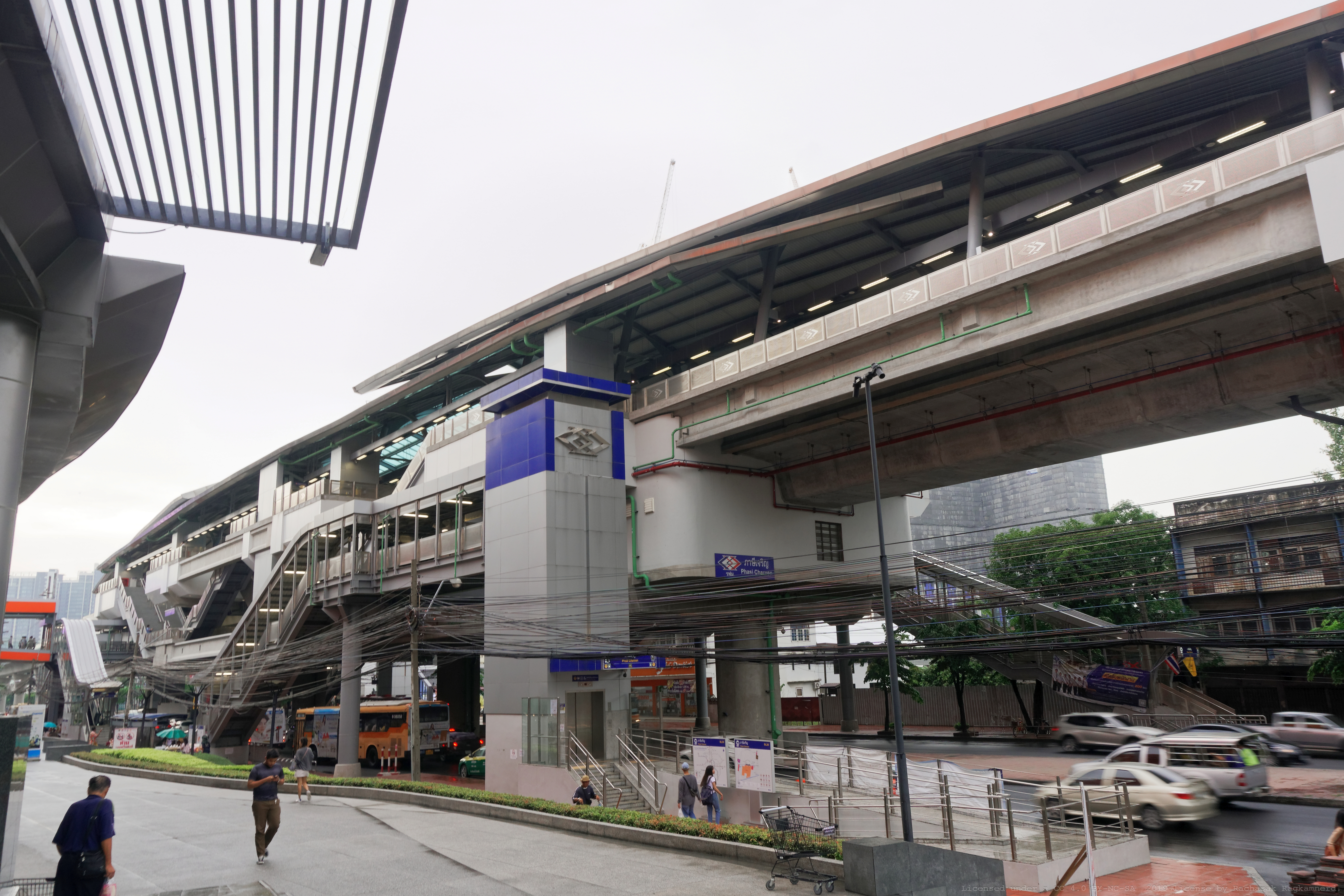 MRT Phasi Charoen station: Station. View from Seacon Bangkae